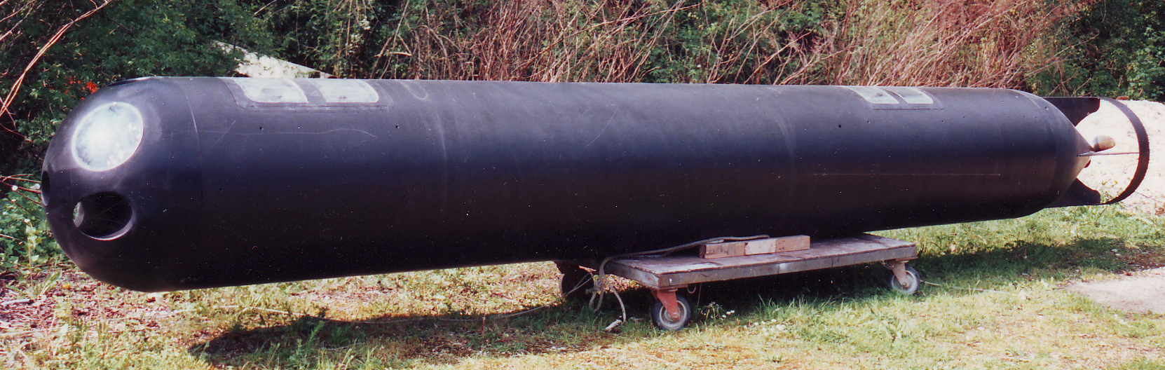 ASDV MARK 10